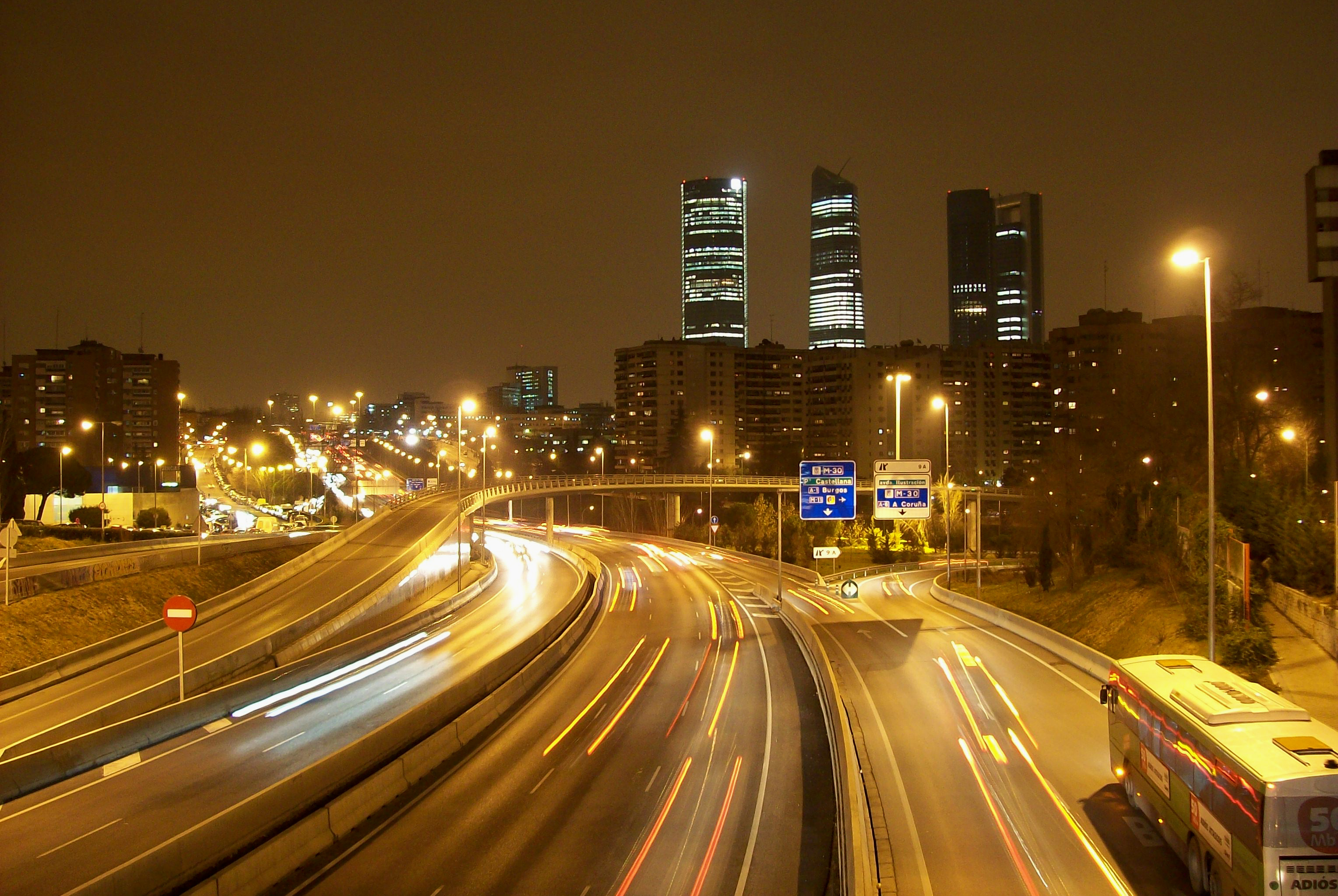 M-30 ring highway in Madrid (Spain). Background: CTBA buildings.